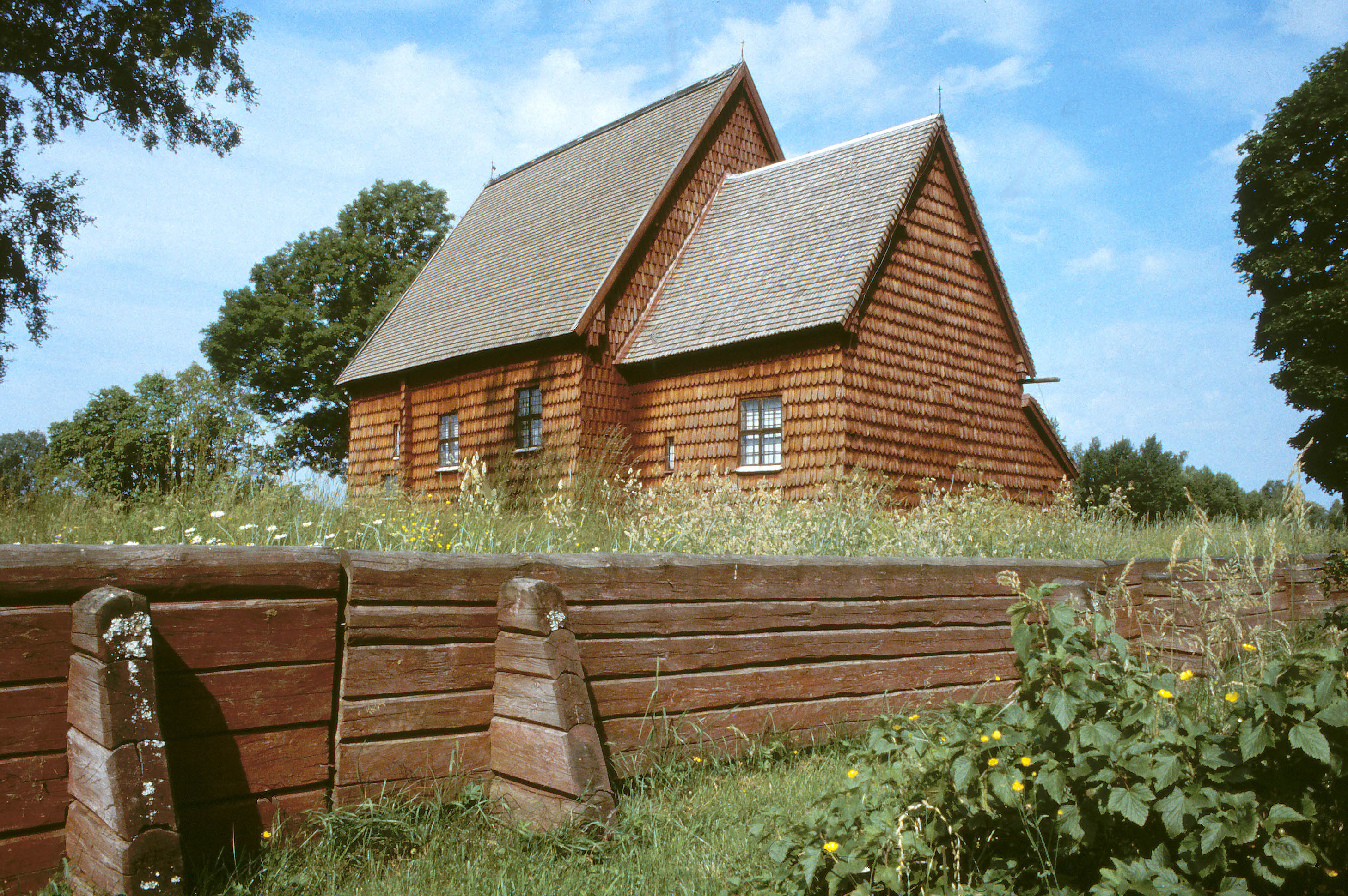 The medieval church of Södra Råda, Sweden, now destroyed by fire.